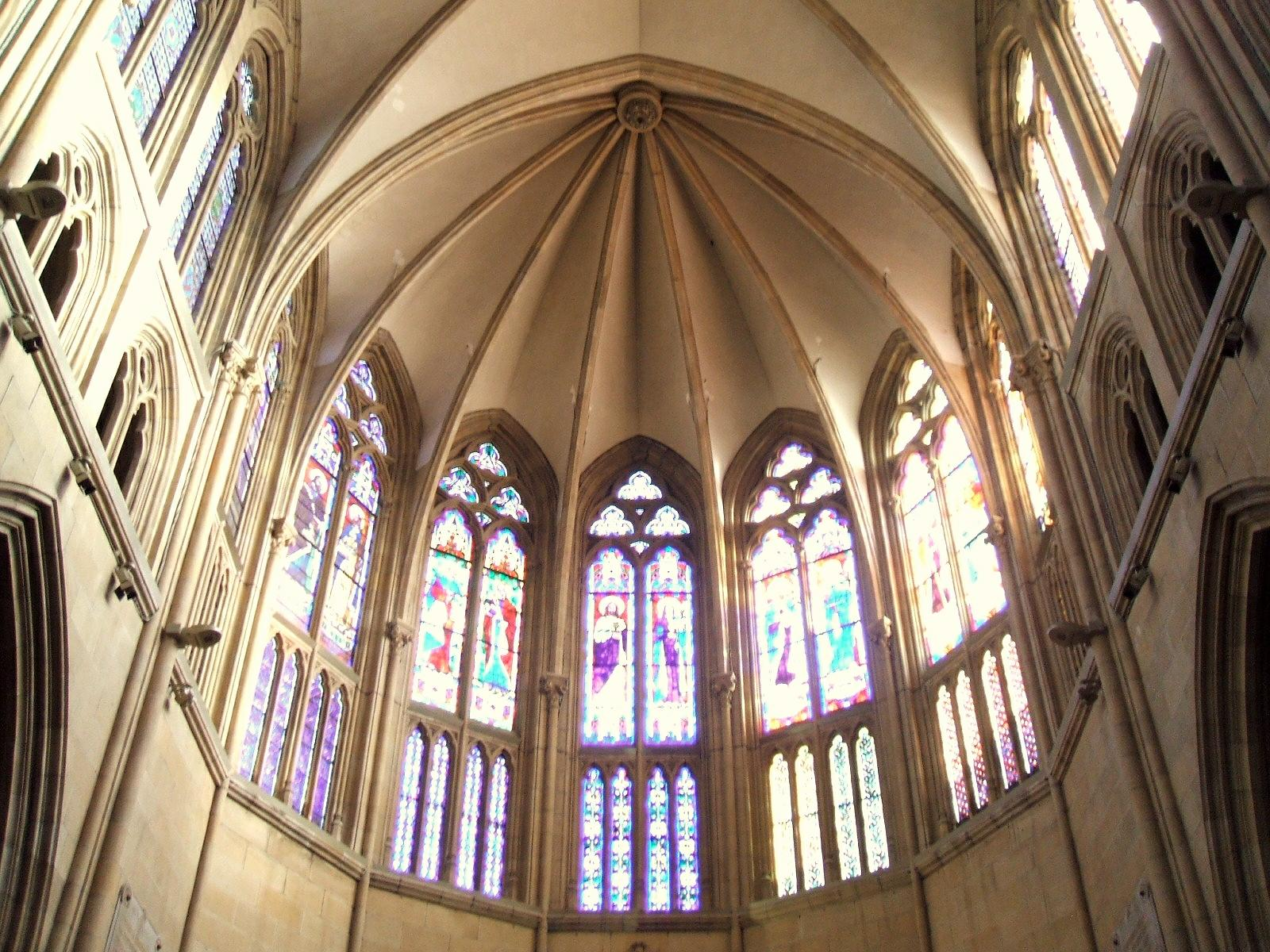 Catedral del Buen Pastor de San Sebastián (Guipúzcoa, País Vasco, España)